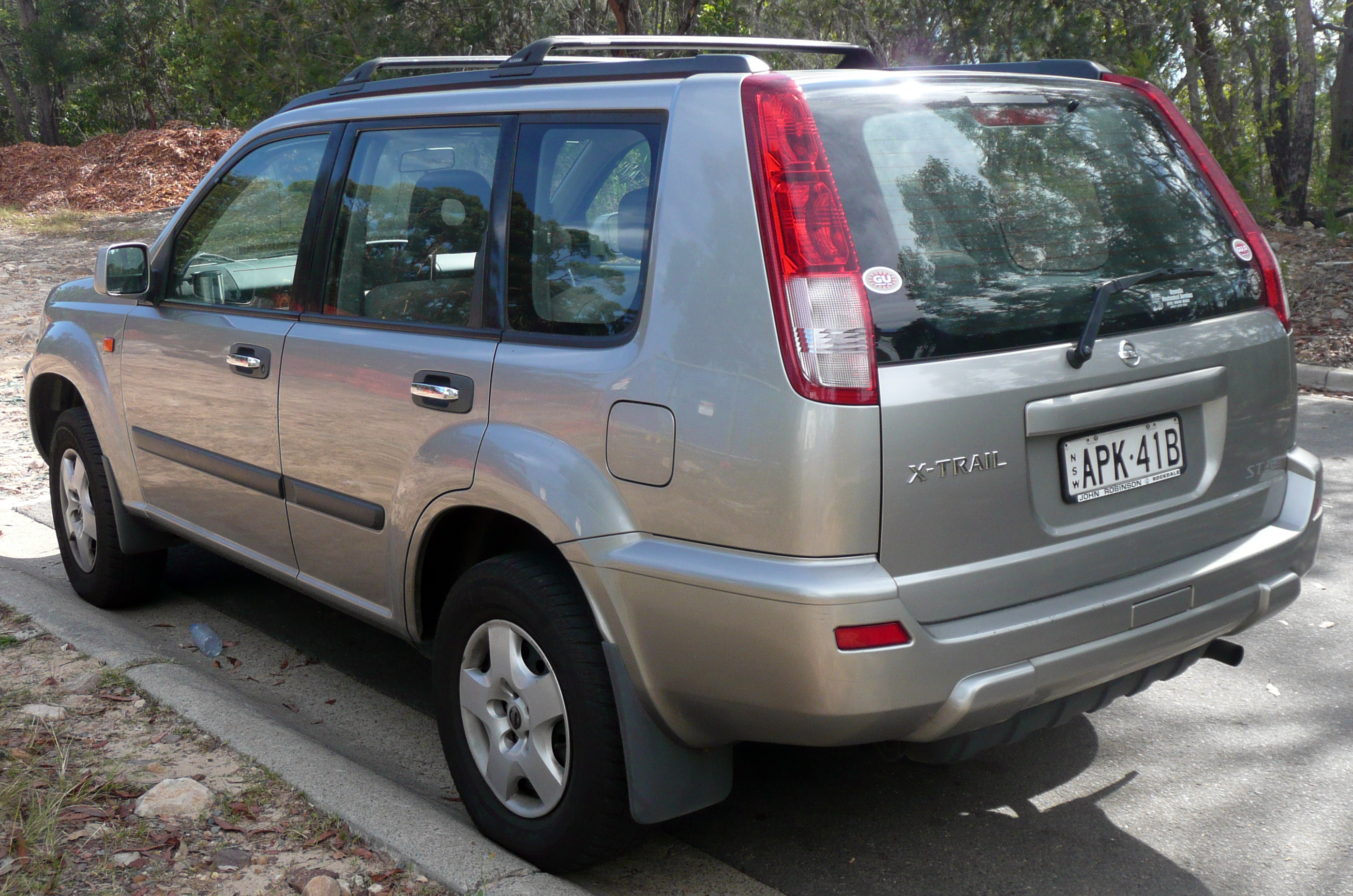 2003 Nissan X-Trail (T30) ST wagon. Photographed in New South Wales, Australia.